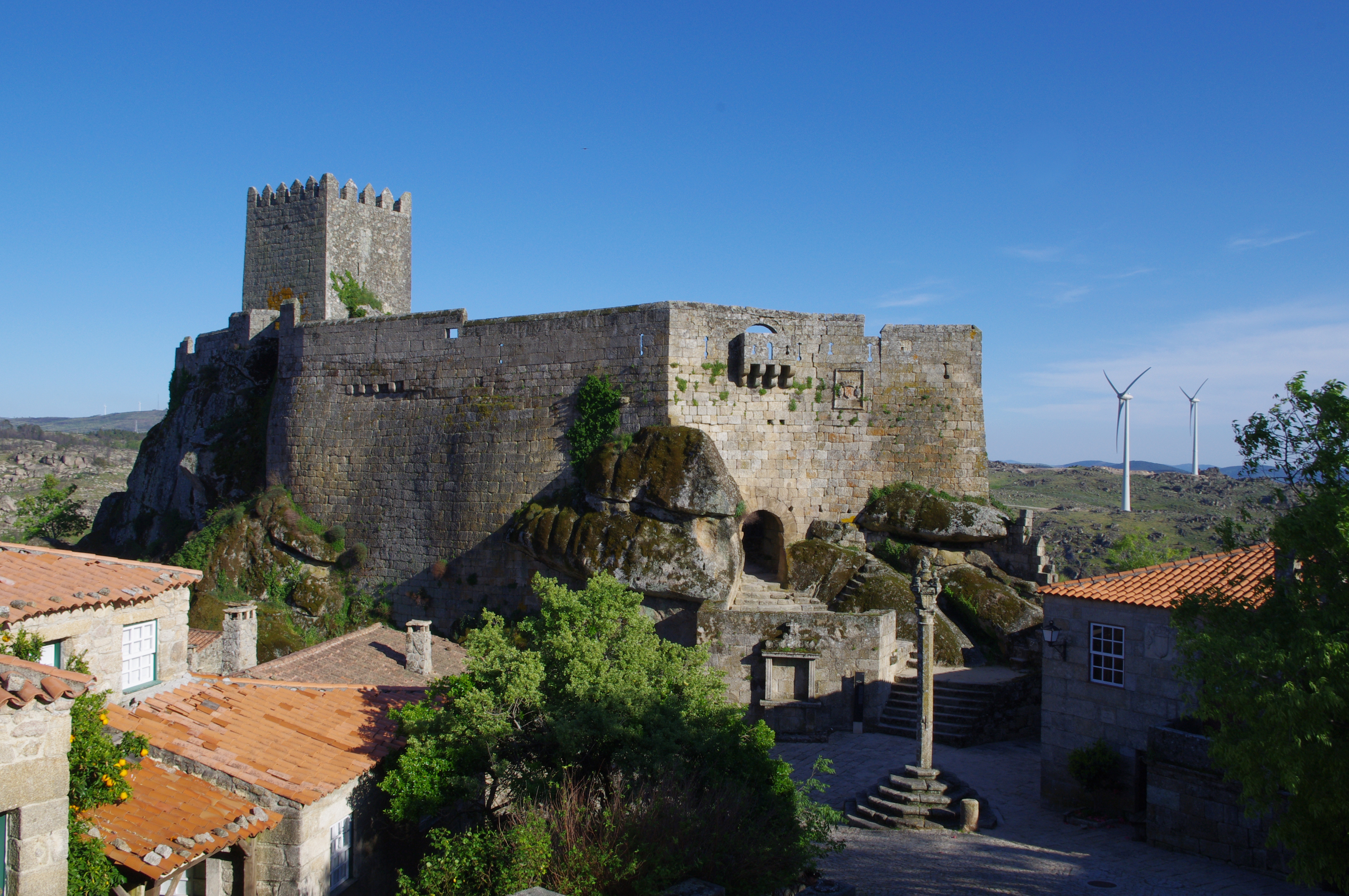 Here you can see the primary 12th century fortifications on a bluff above the 13th - 15th century walled town. Initially, these lower buildings were outside the walls but were later enclosed to create a complete walled town.